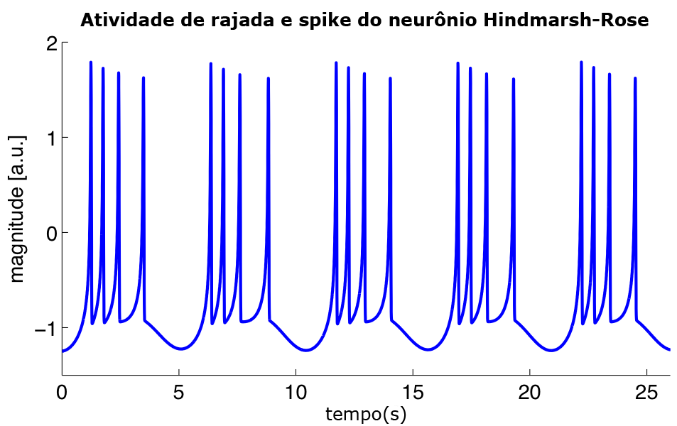 Simulation of Hindmarsh-Rose neuron showing burst and spike activity